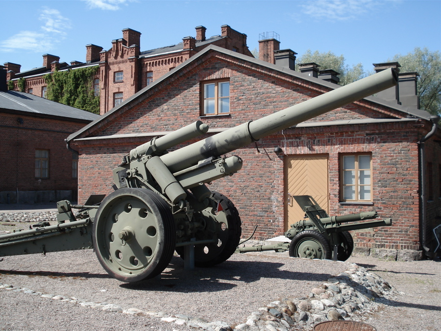 German Heavy 15 cm Feldhaubitze 18, in production from 1935 to 1945, displayed in Hämeenlinna Artillery Museum, Finland. This howitzer was one of the mainstays of German artillery during World War II. In the background is a British QF 18-pounder field gun, of which Finland bought 30 intended for use in the Winter War.